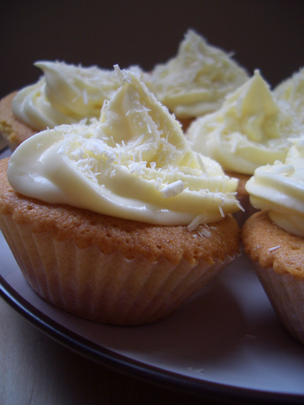 Vanilla cupcakes with lemon and mascarpone frosting and white chocolate curls.